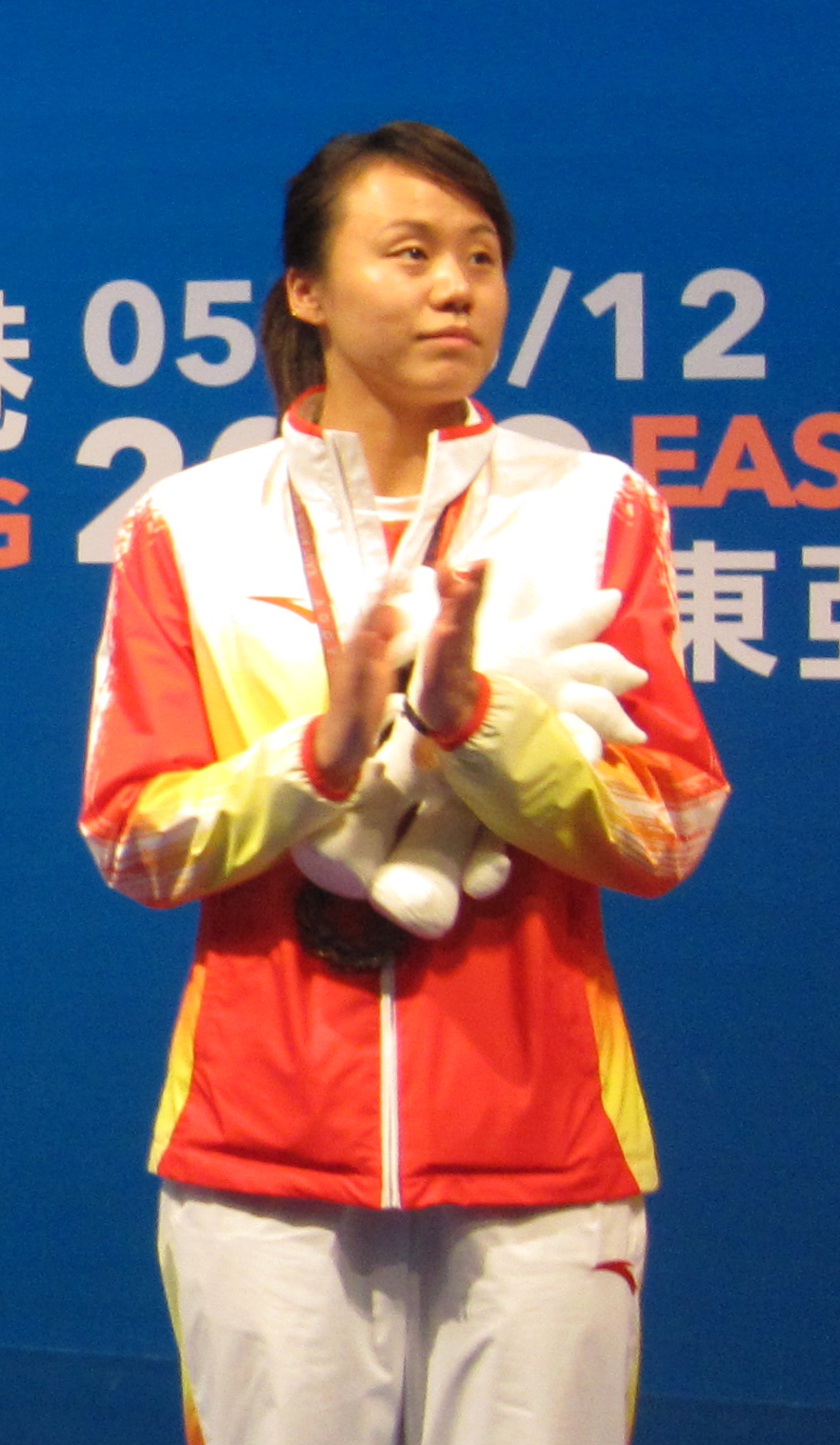 Zhao Yunlei @ Hong Kong East Asian Games